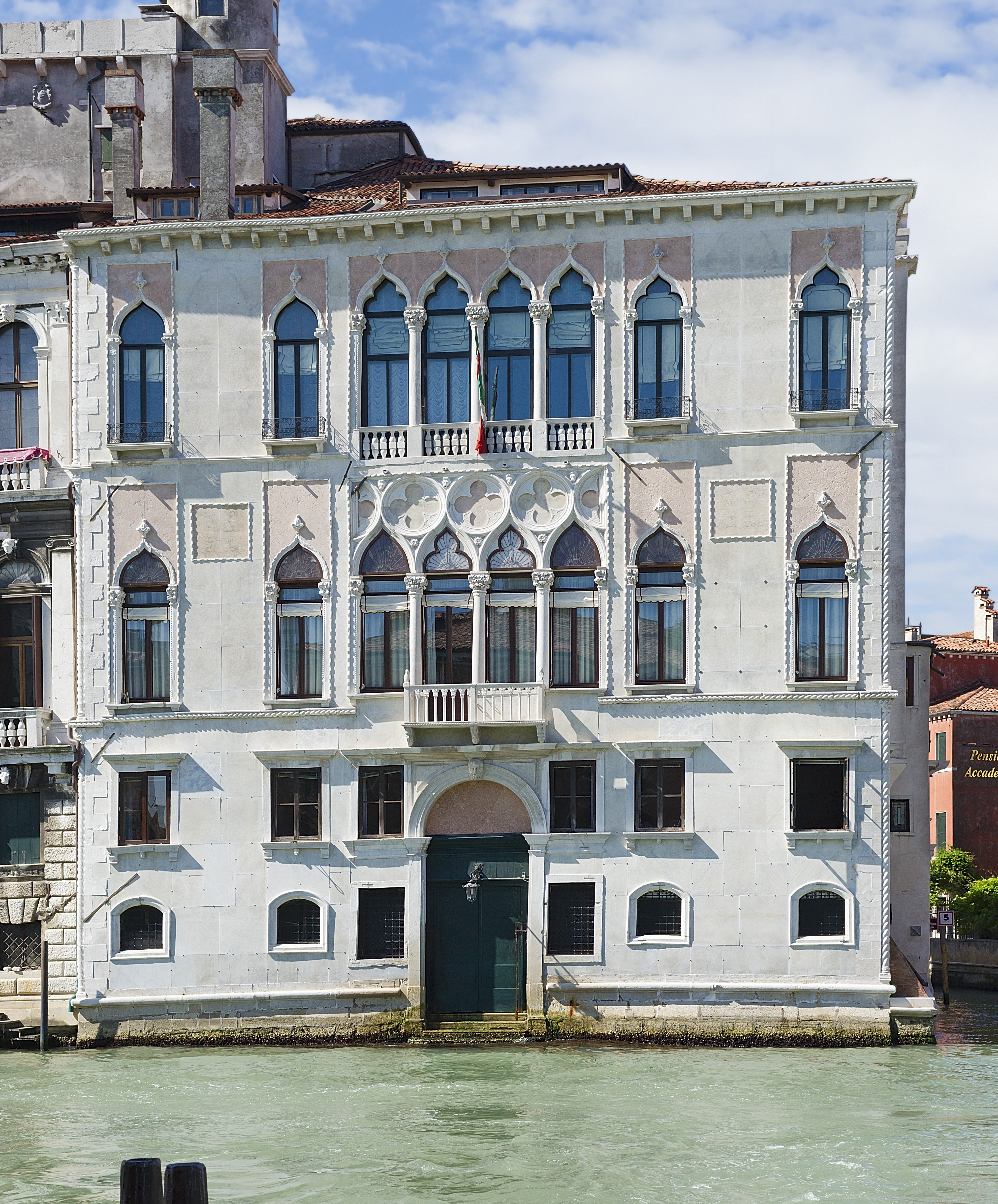 Palazzo Contarini de Corfù, Venice facade.